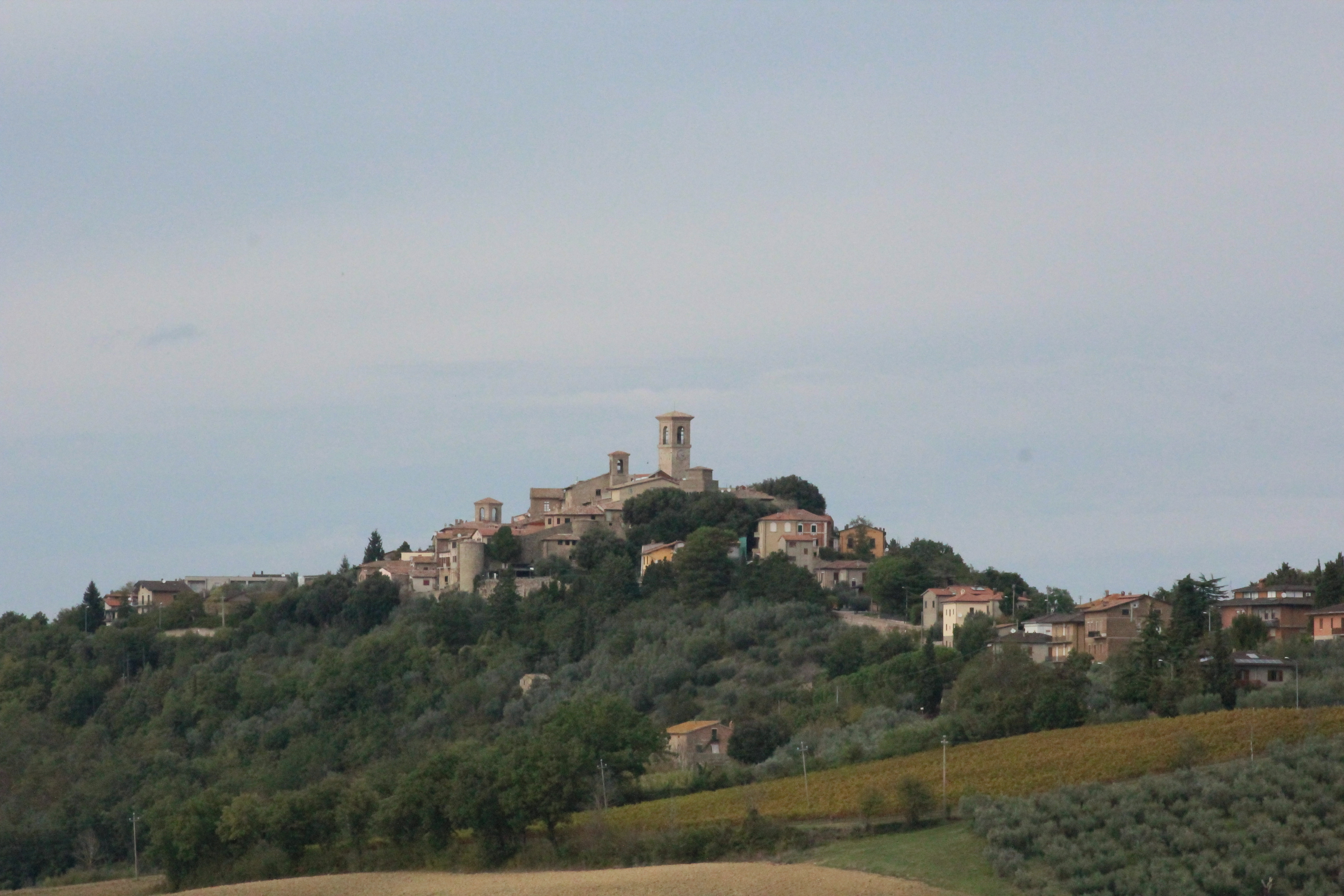 Panorama of Collazzone, Province of Perugia, Umbria, Italy